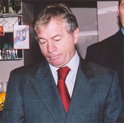 Serbian coach and retired footballer Ilija Petković in Canada in 2006.